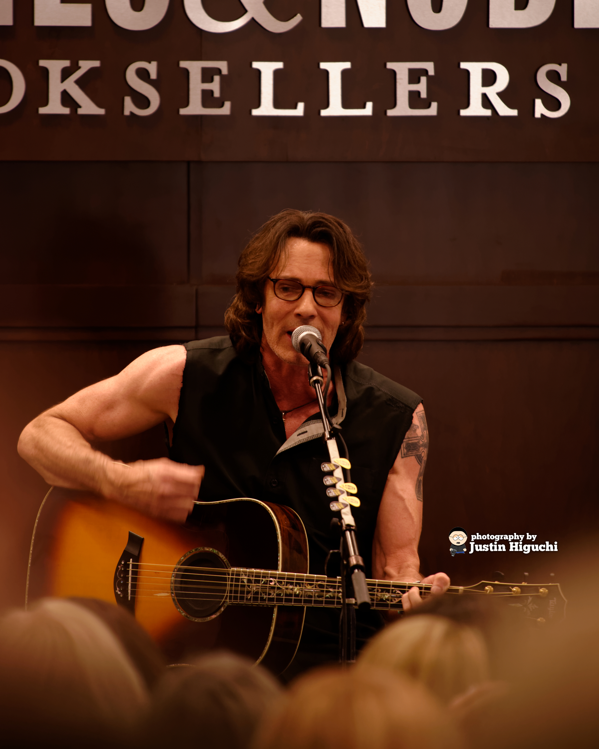 Rick Springfield performing live at Barnes & Noble bookstore at The Grove L.A. shopping center in Los Angeles California on Friday May 9th, 2014. Rick was promoting and signing his new book "Magnificent Vibration". He performed four songs, including -- of course -- "Jessie's Girl". These shots were taken using a Nikon TC-20E (2X) AF-I teleconverter along with my usual Nikon D610 body and Nikon 70-200mm AF-S VR-NIKKOR f/2.8G lens... I was pretty far back, since the room was really packed.